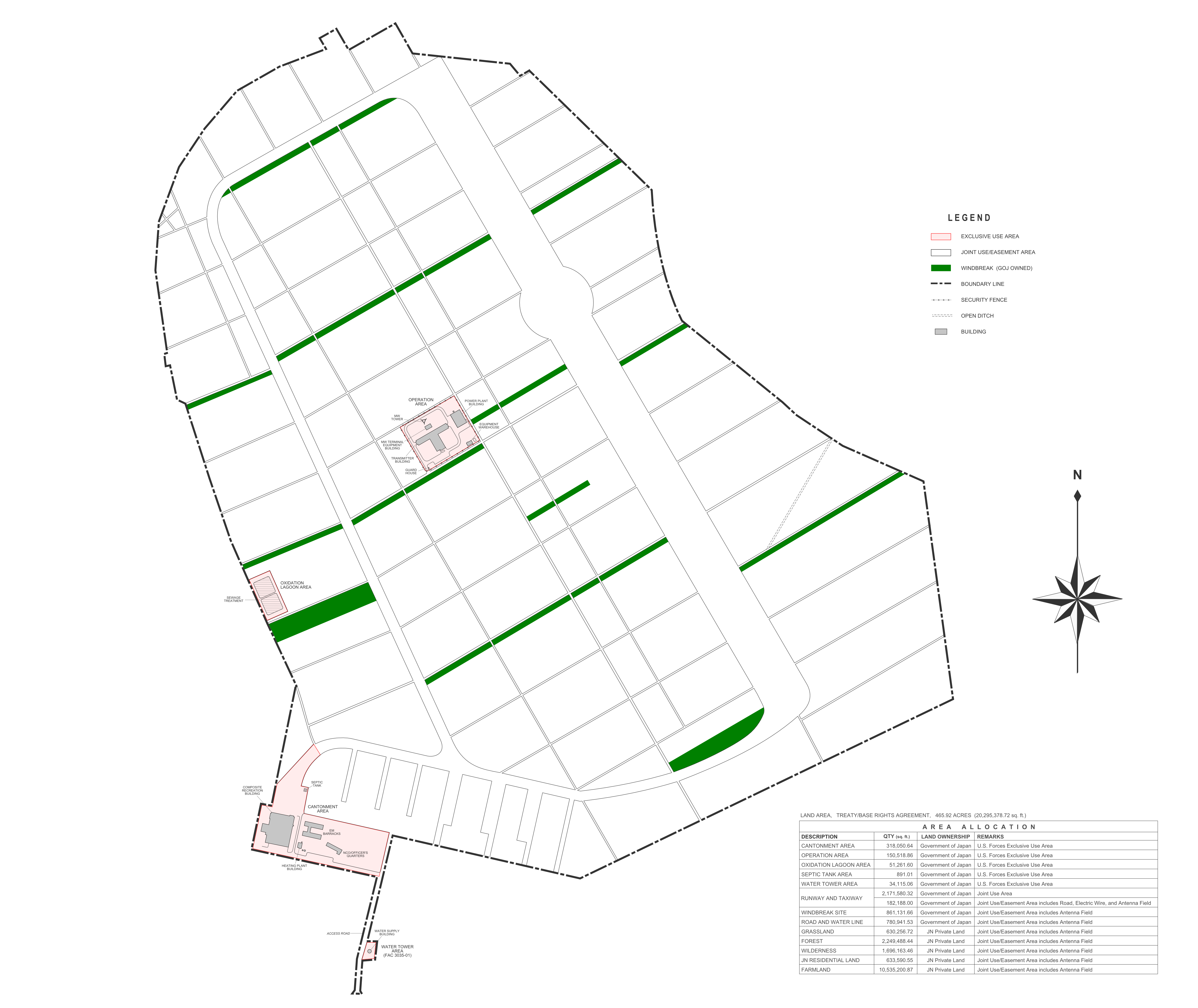 Plot Plan, Kashiwa Transmitter Site (1954): The facility also known as U.S. Army Camp Tomlinson, located at Nakatoyofuta (present Kashiwanoha), Kashiwa City, Chiba Prefecture, Japan. In July 1950 and June 1951, the Army had administratively reoccupied major portions of former Kashiwa Airfield (built by the IJAAF in 1938) to utilized the site as a long-haul HF radio communications transmitter station. When the site became operational (May 1954), the owners of the antenna field were mostly local farmers who received rent payment from the Government of Japan, at the same time the Army policies permitted them to continue to dwell, and otherwise restrictedly use the land underlying the antennae.